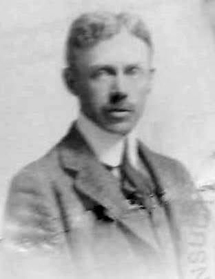 French wartime document photograph of M. Howard Burnham, 1915